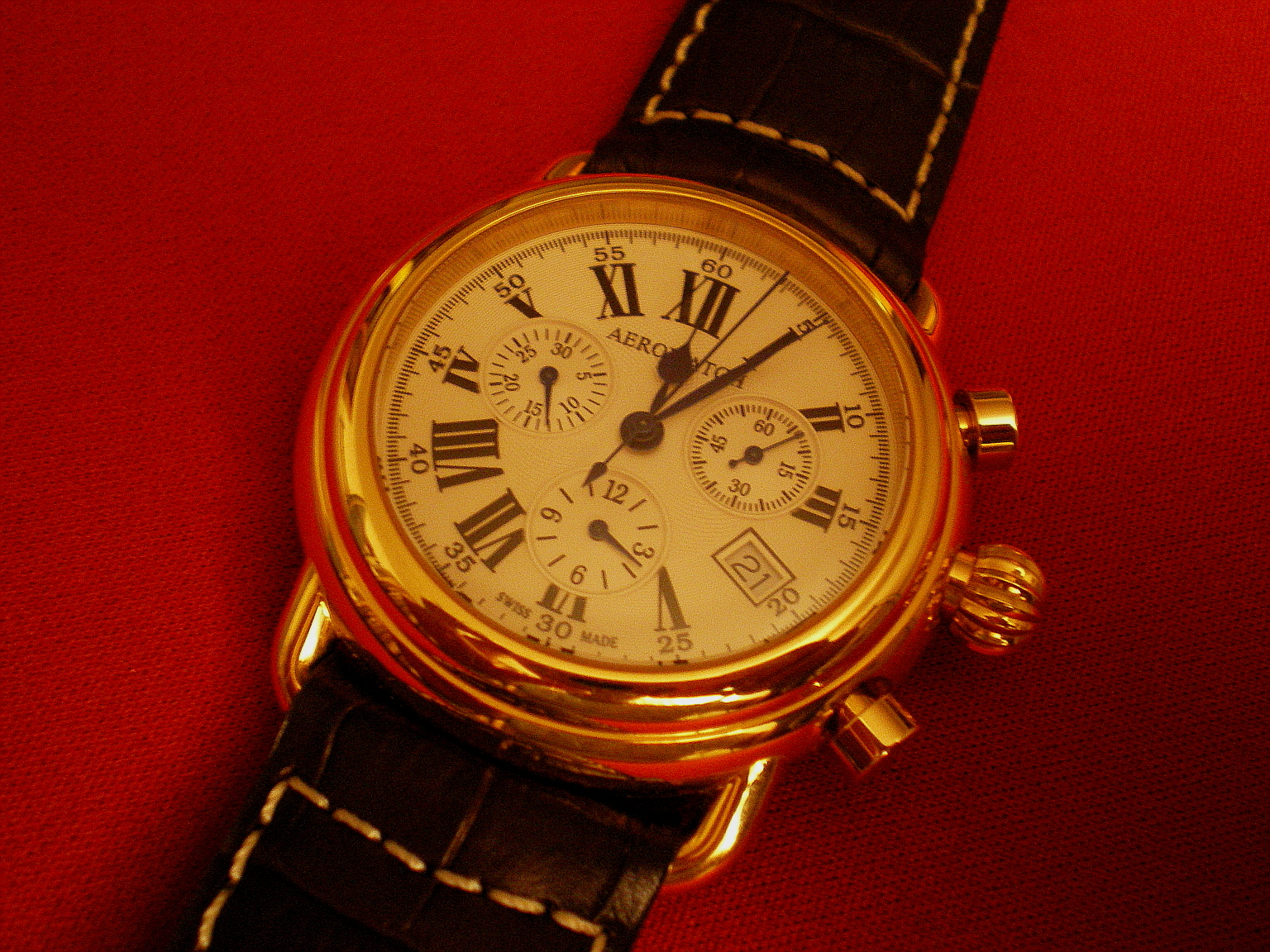 AEROWATCH SUISSE chronograph Model Quartz 1942